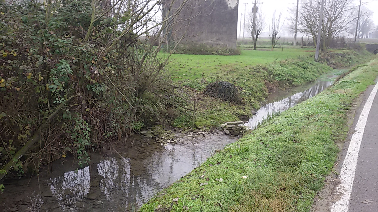 Lorno spring